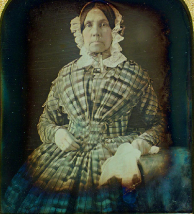 Portrait of Mrs. Admiral Irving Shubrick. By John Plumbe, Jr. TITLE ON OBJECT: Mrs. Adm'l Irving Shubrick. ca. 1845 - 1850. daguerreotype. 1/4 plate. George Eastman House.